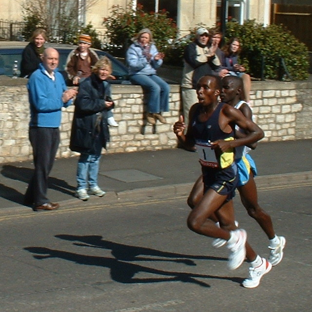 Bath Half Marathon, 2006 leaders on Newbridge Road, second lap. Simon Tonui (number 1) just ahead of eventual winner Simon Kasimili (number 8).